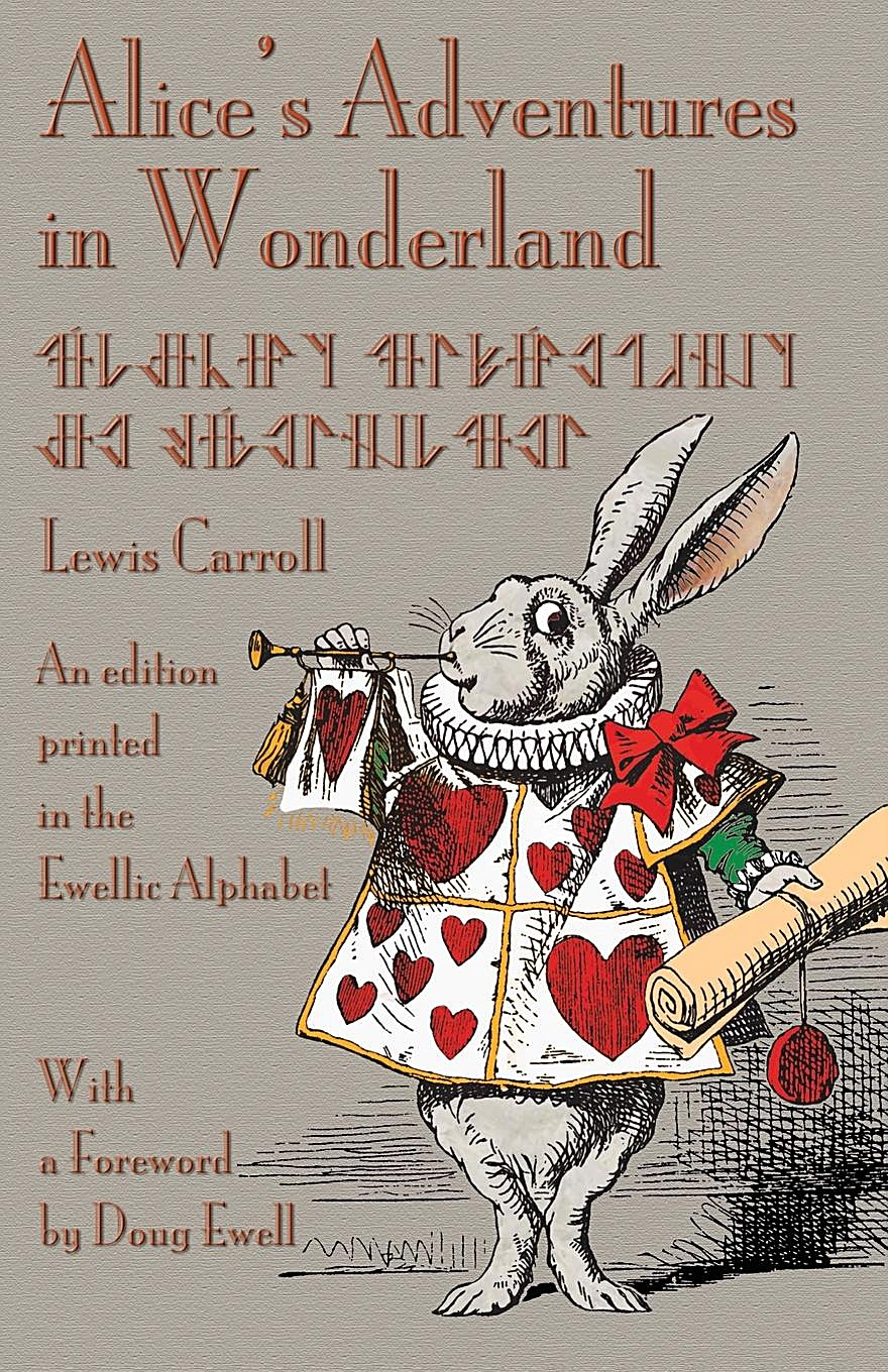 Lewis Carroll: Alice's Adventures in Wonderland, Cathair na Mart 2013 - transcription in the Ewellic alphabet - front cover